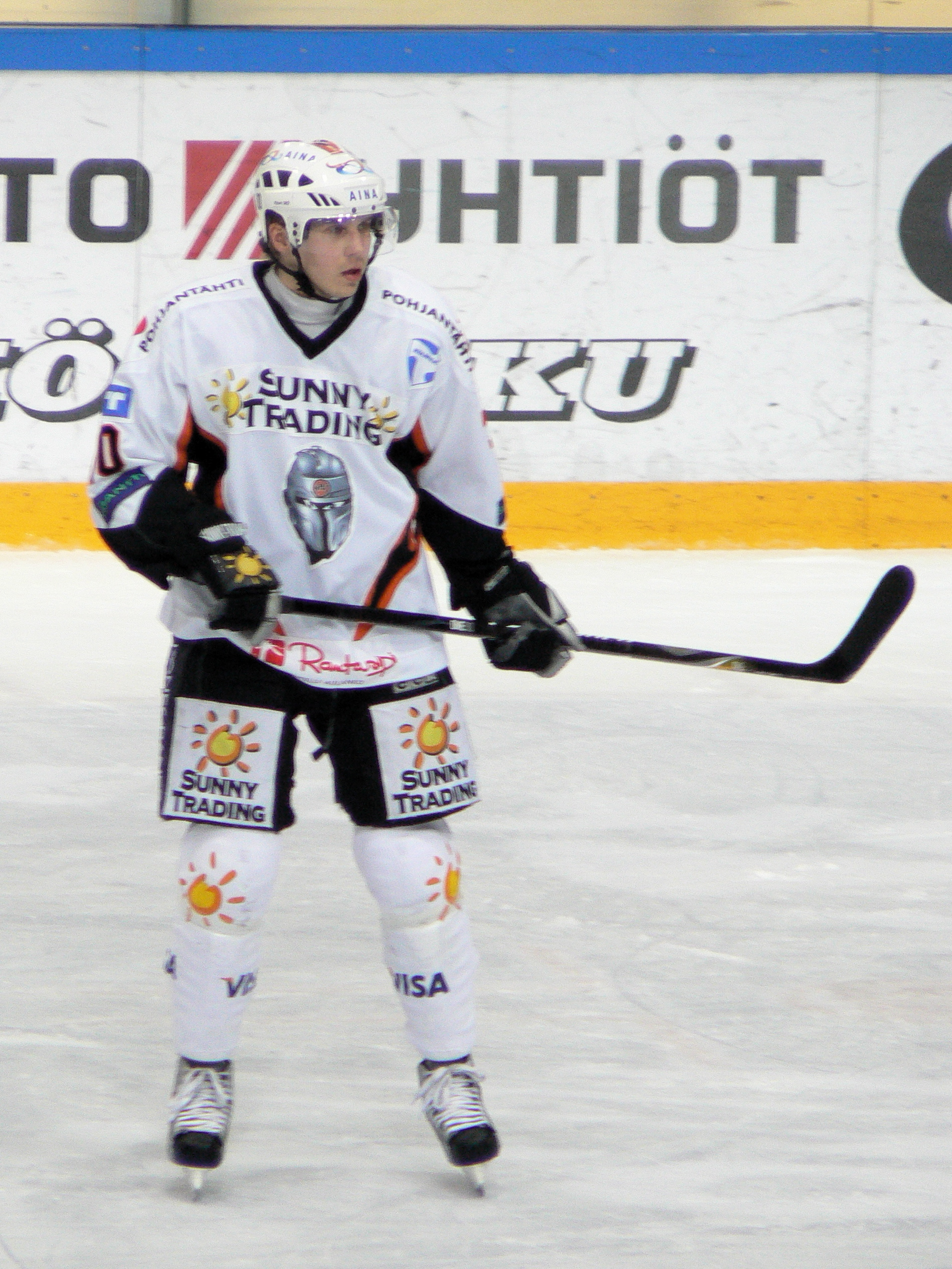 Finnish ice hockey center Jesse Niinimäki playing for HPK Hämeenlinna in January 2008.